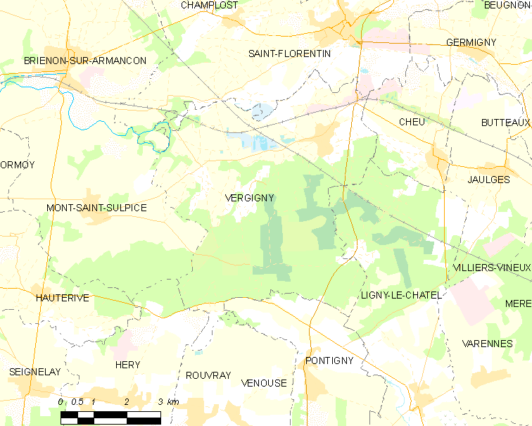 Map of French municipality Vergigny